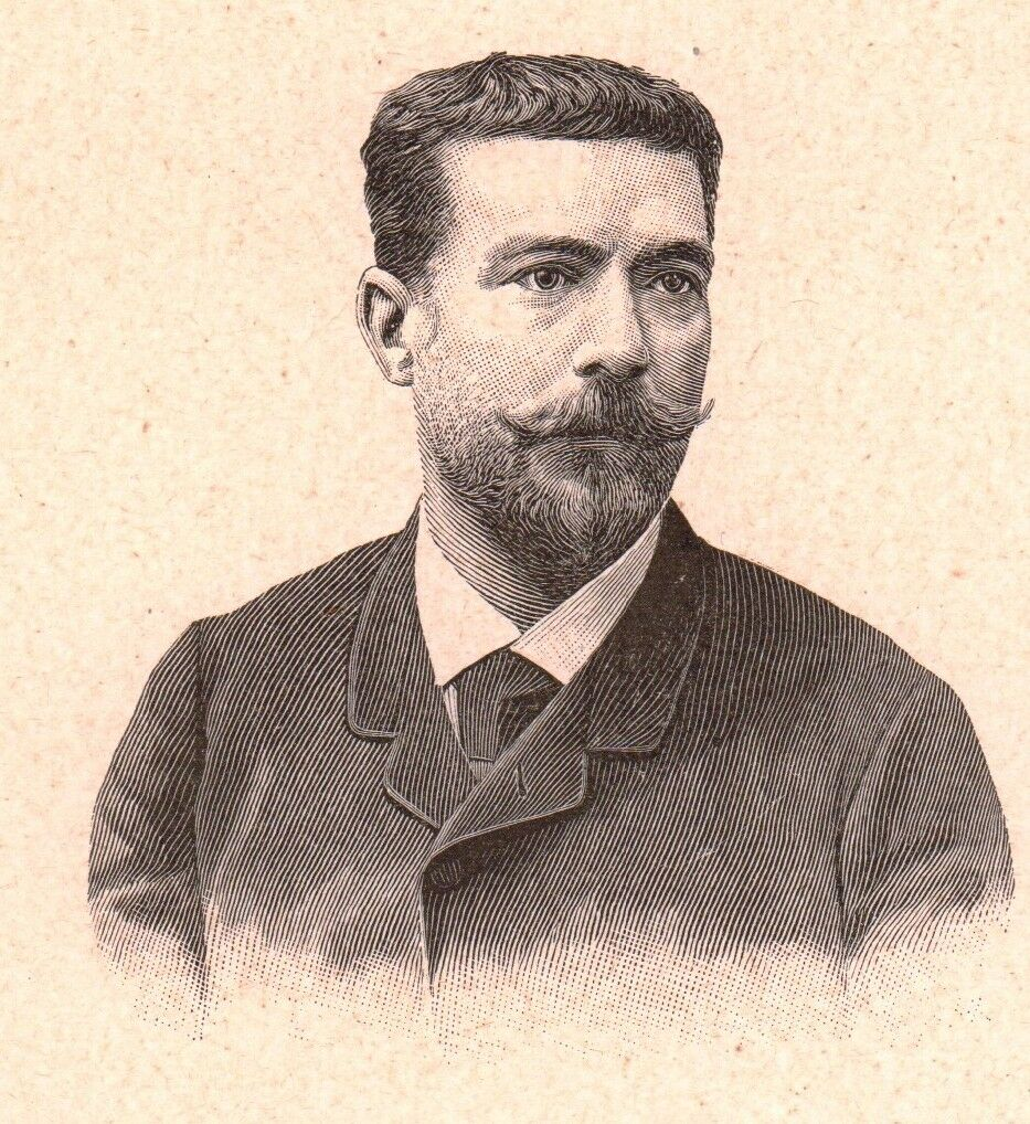 French journalist and boulangiste Georges Thiébaud (1855-1915)